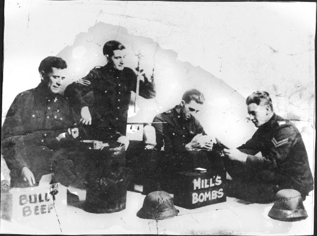 Commonwealth troops, with one playing the Jap fiddle